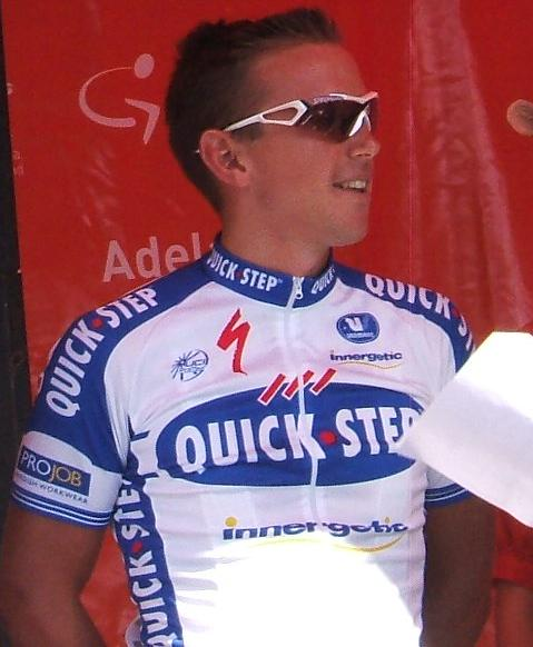 Named cyclist at the en:2009 Tour Down Under team presentation